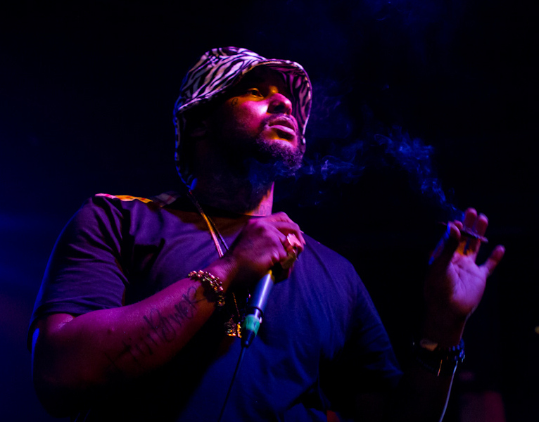 Schoolboy Q show at The Door in Dallas 6/30/12